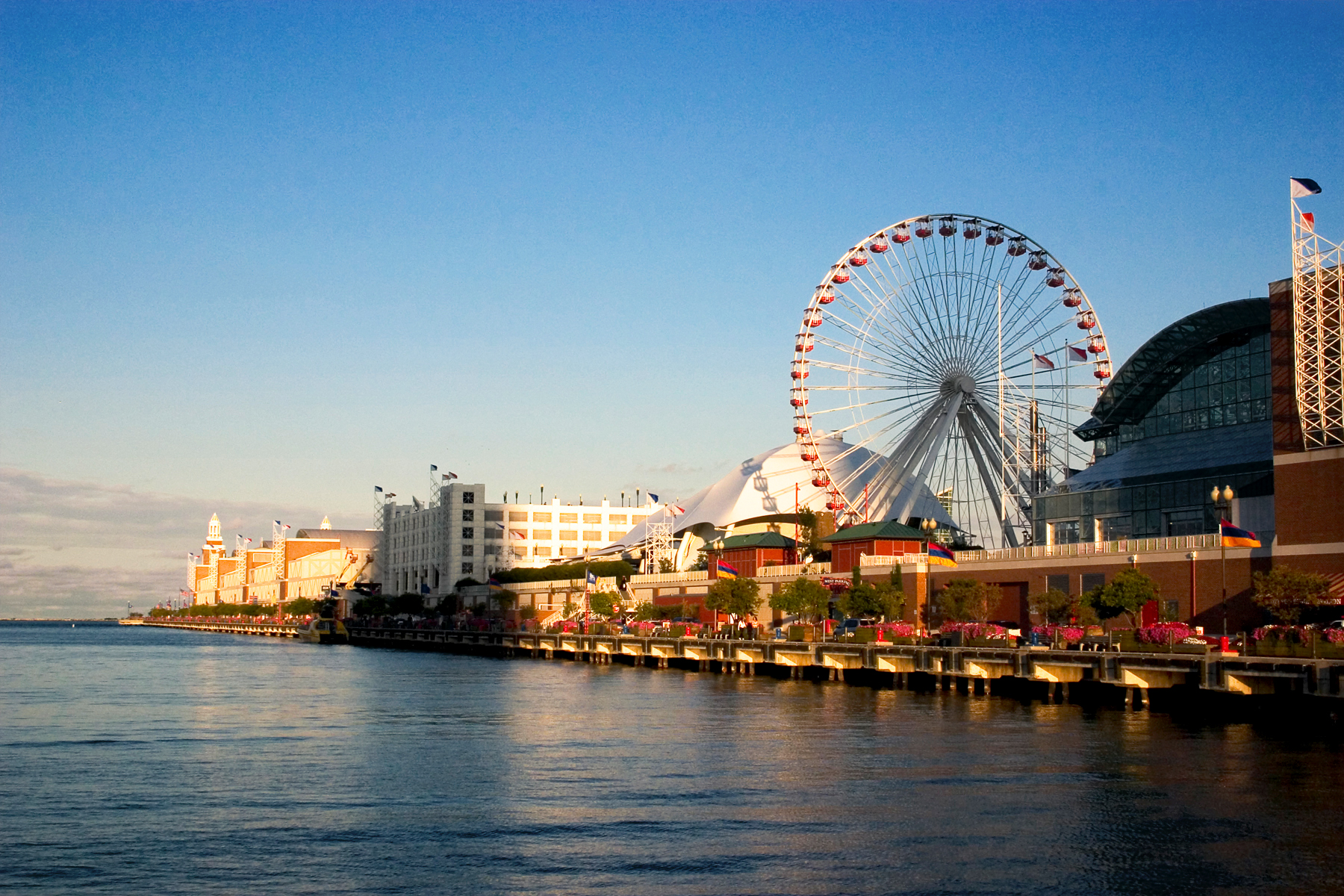 A view of Navy Pier from the shoreline in Chicago.